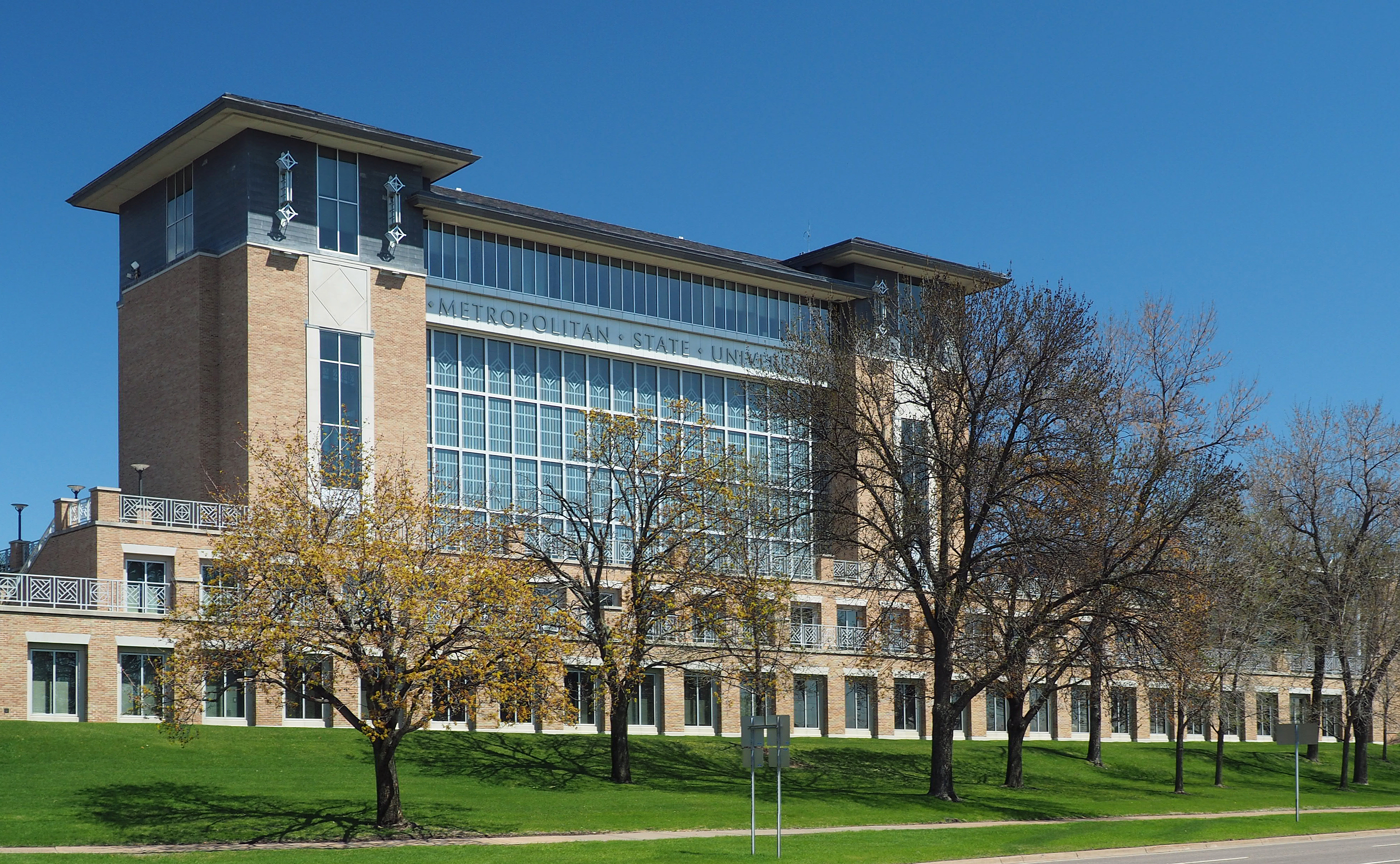 New Main, 403 Maria Ave, Metropolitan State University, St Paul, Minnesota, USA. Viewed from the east.